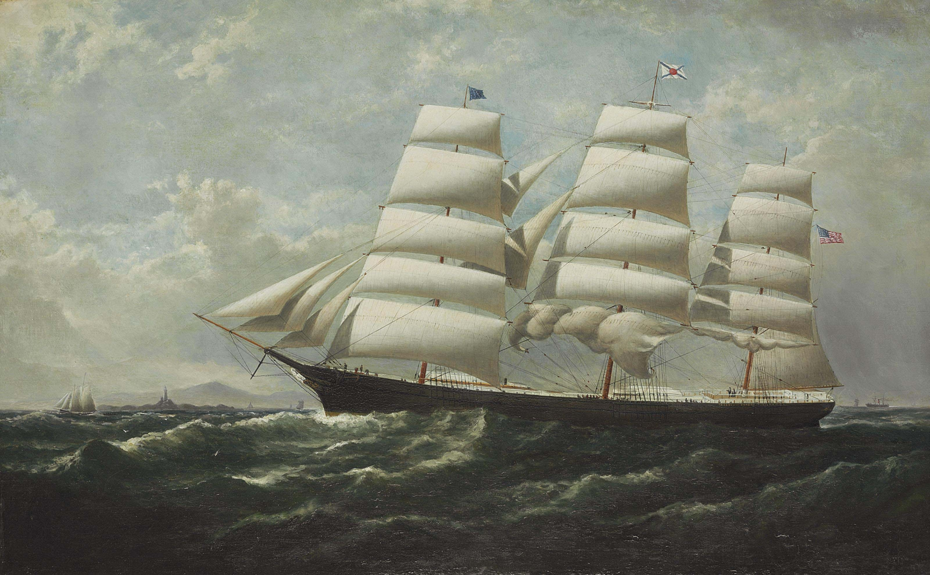 The Glory of the Seas was launched in Boston on October 21st, 1869 and proudly sailed the seven seas until it was scrapped and burned off the coast of Seattle on May 13th, 1923.